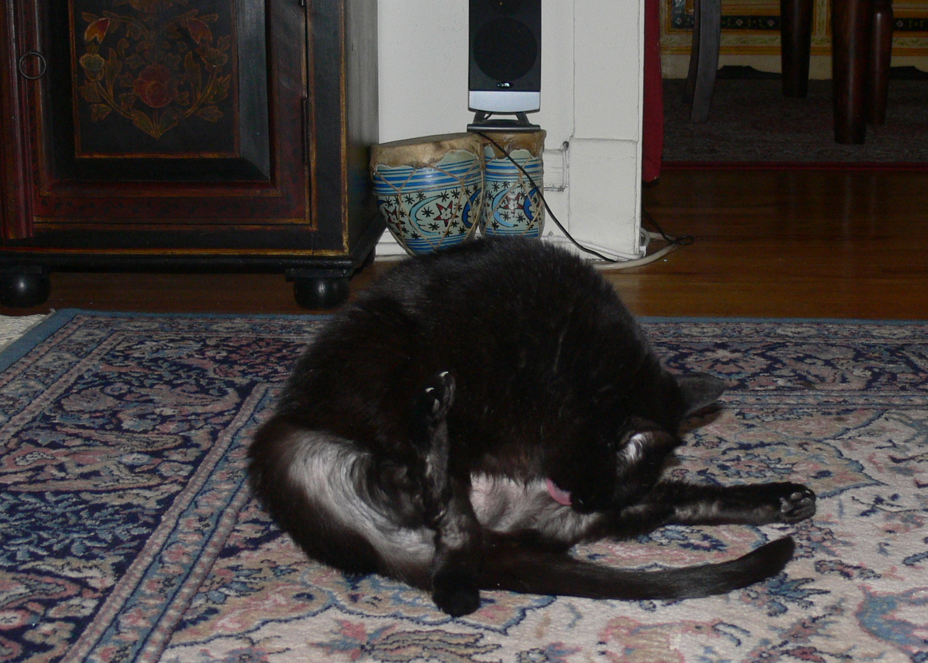 An image of a feline engaged in a compulsive behavior known as psychogenic alopecia. Baldness around the abdomen, flank, and legs is noticeable.